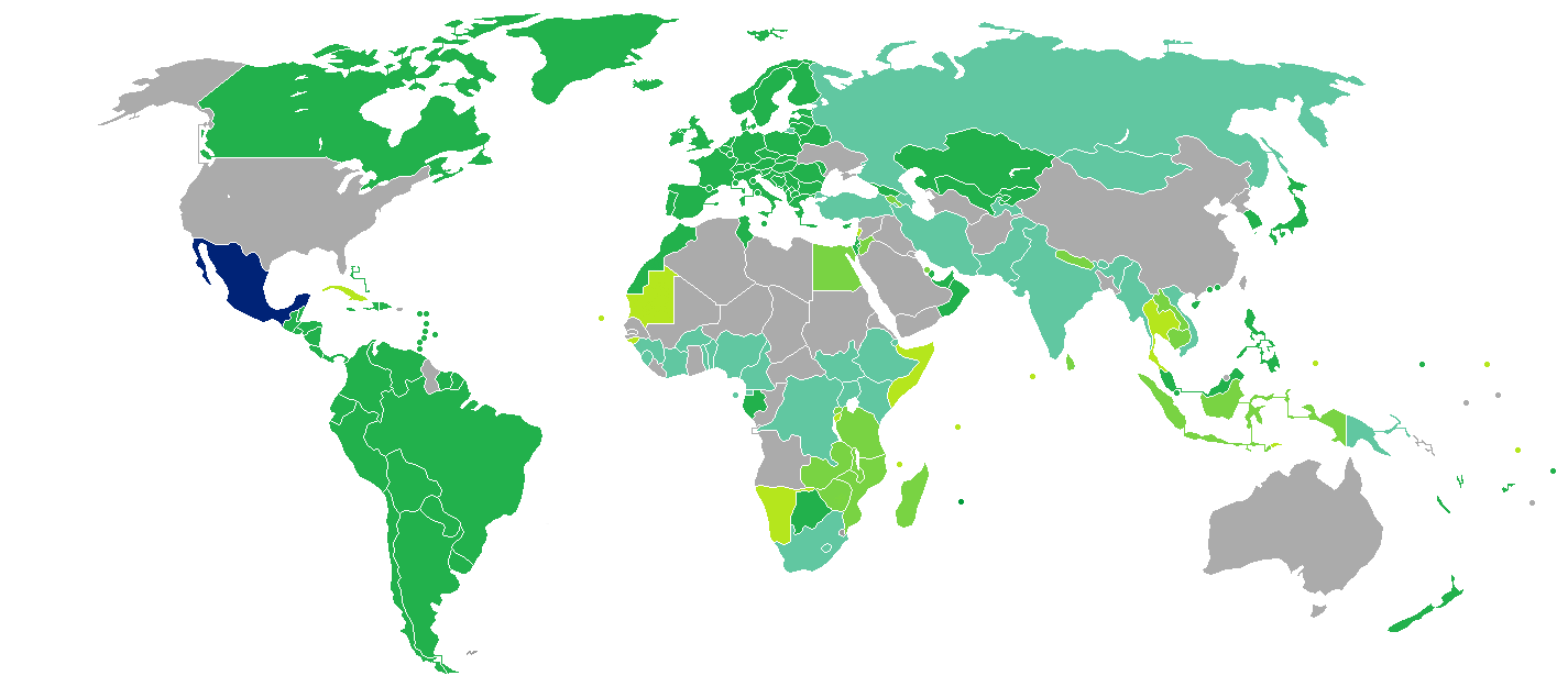 Visa requirements for Mexican citizens Mexico Visa free access Visa on arrival eVisa Visa available both on arrival or online Visa required